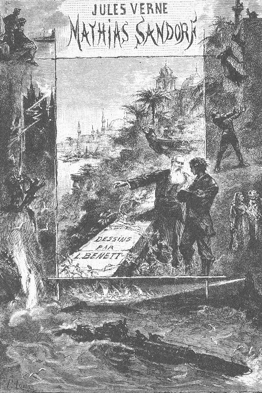 An illustration from Jules Verne's novel "Mathias Sandorf" (1885) drawn by Léon Benett.